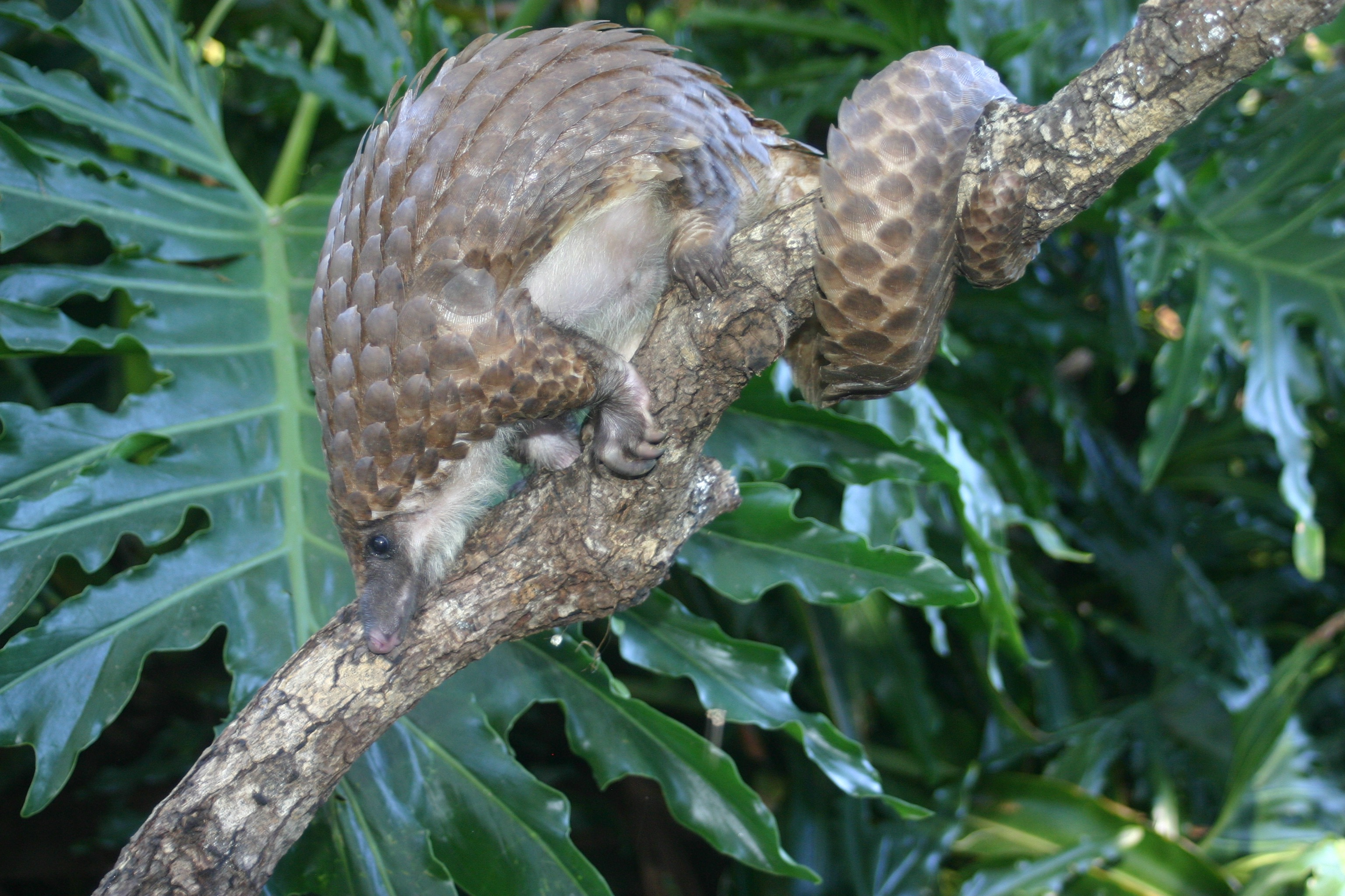 A female White-bellied Tree Pangolin (Phataginus tricuspis). Photo taken by Justin Miller at Pangolin Conservation, in St. Augustine, FL.